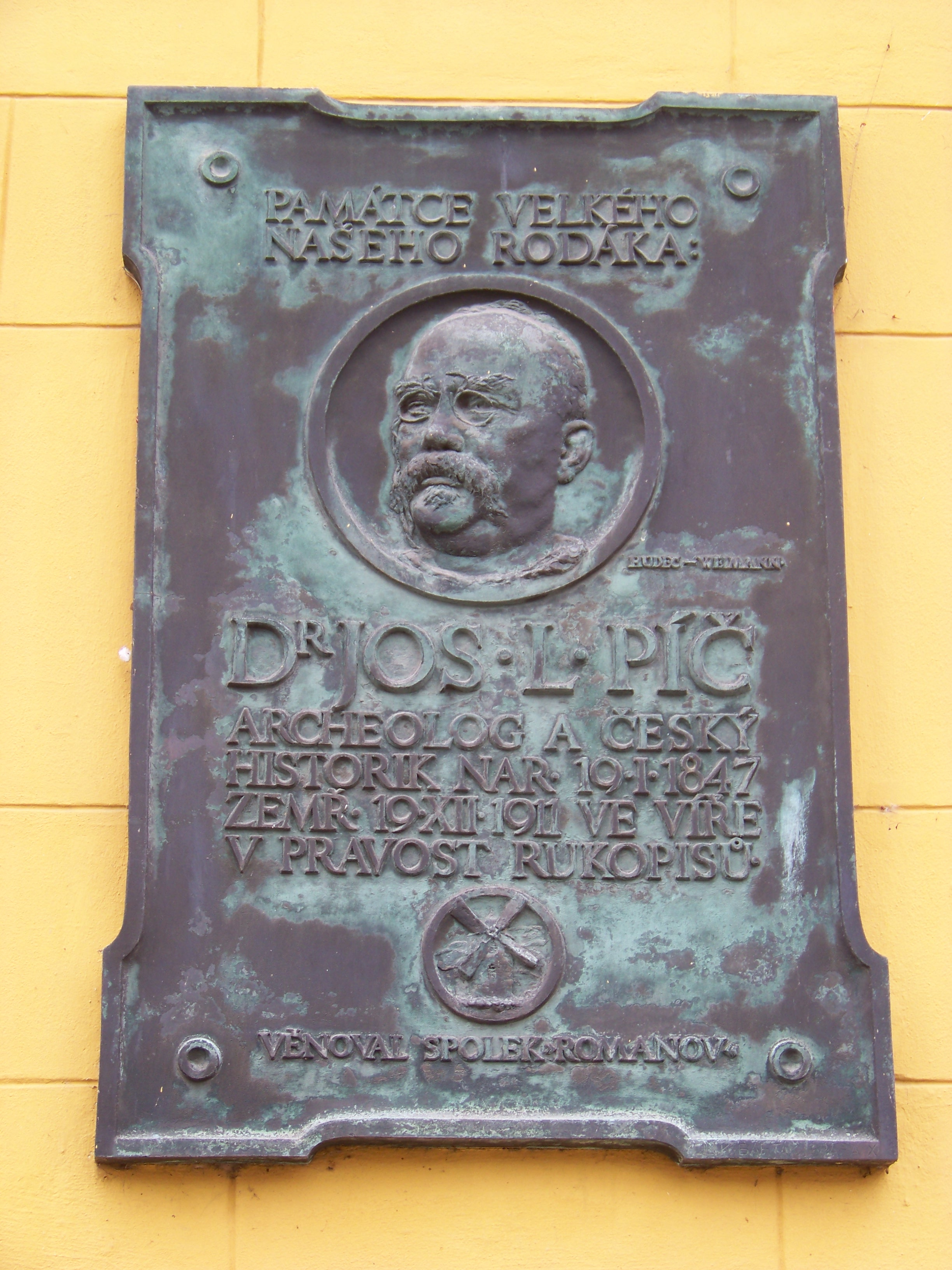 Mšeno, Mělník District, Central Bohemian Region, the Czech Republic. Peace Square, a plaque to Josef Ladislav Píč on the town hall.